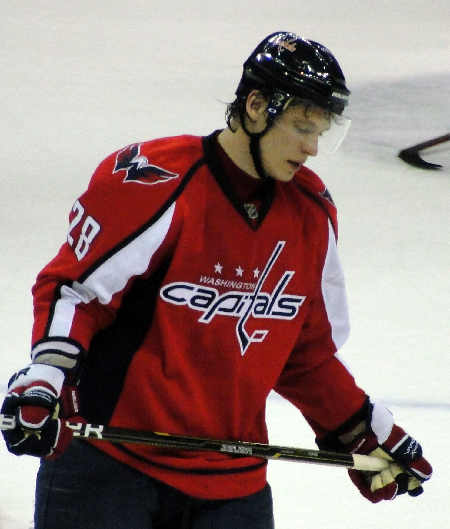 Alex Semin of the Washington Capitals during a playoff game against the Tampa Bay Lightning at Verizon Center in Washington, D.C. May 1, 2011.